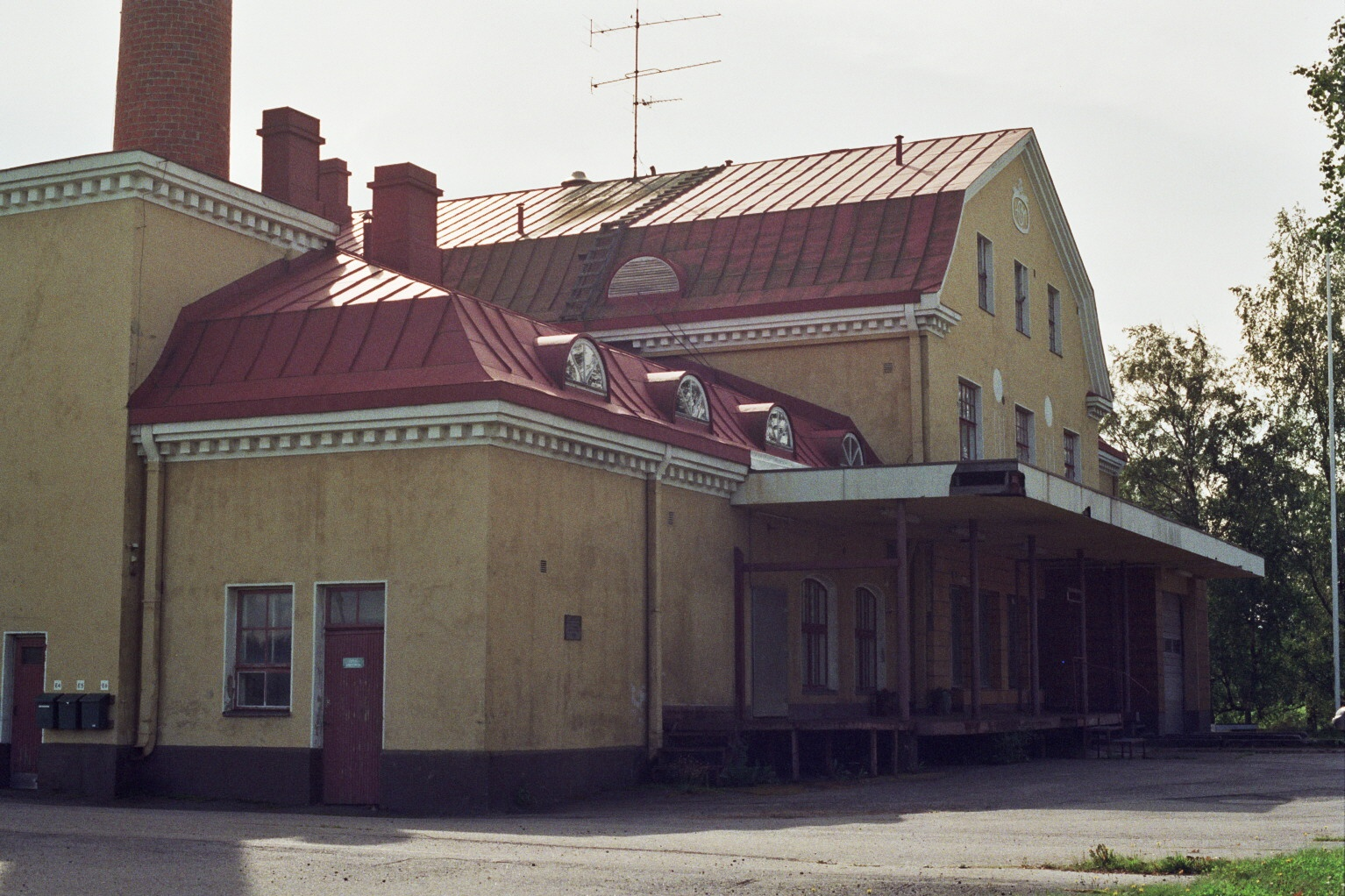 An old dairy in Huittinen, Finland. The building was constructed in 1923. It's no longer in the original use.